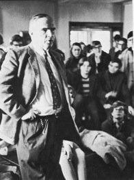 Shimer College president Francis Joseph Mullin speaking with students.